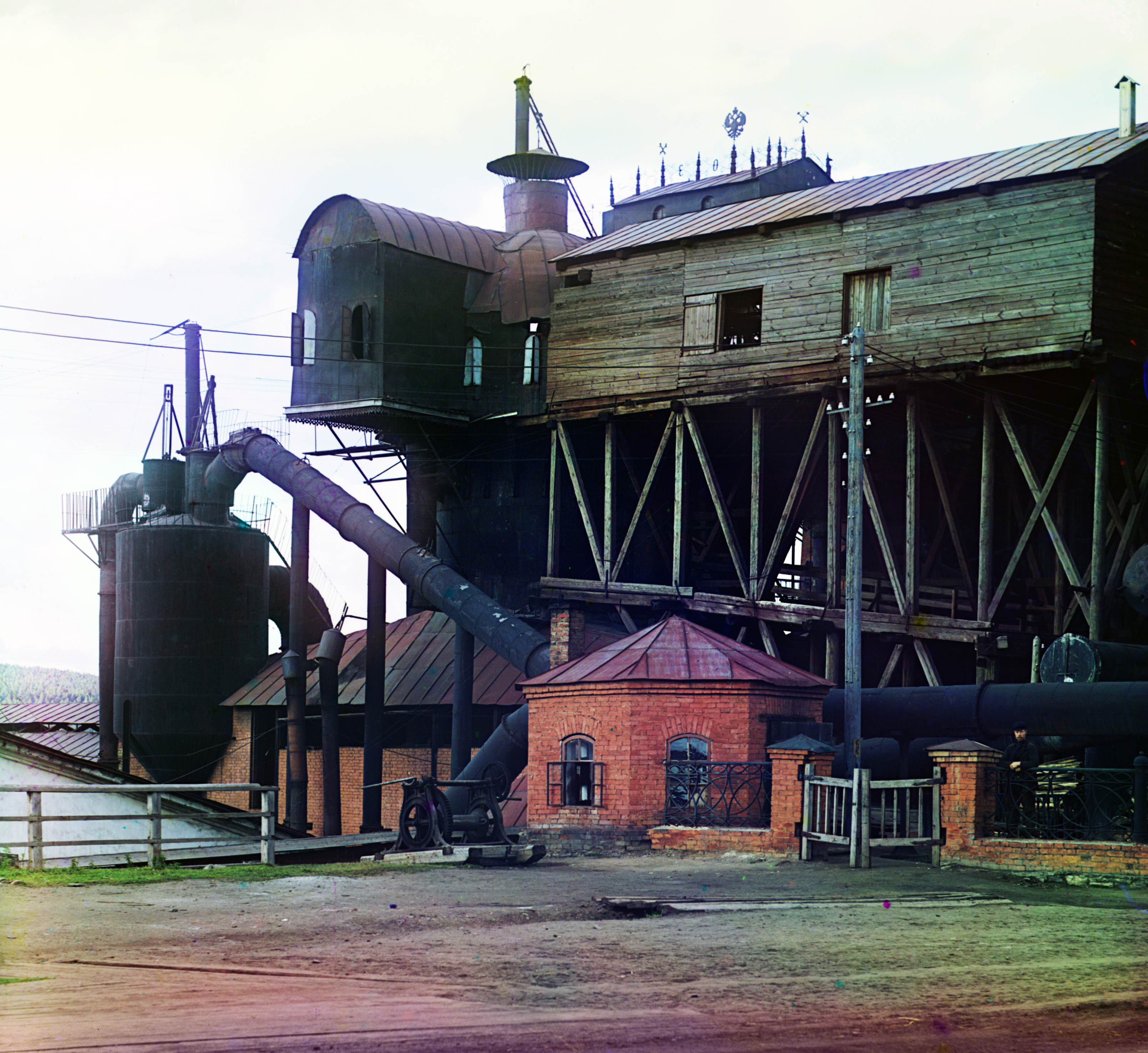 Blast furnaces at the Satkinskii factory